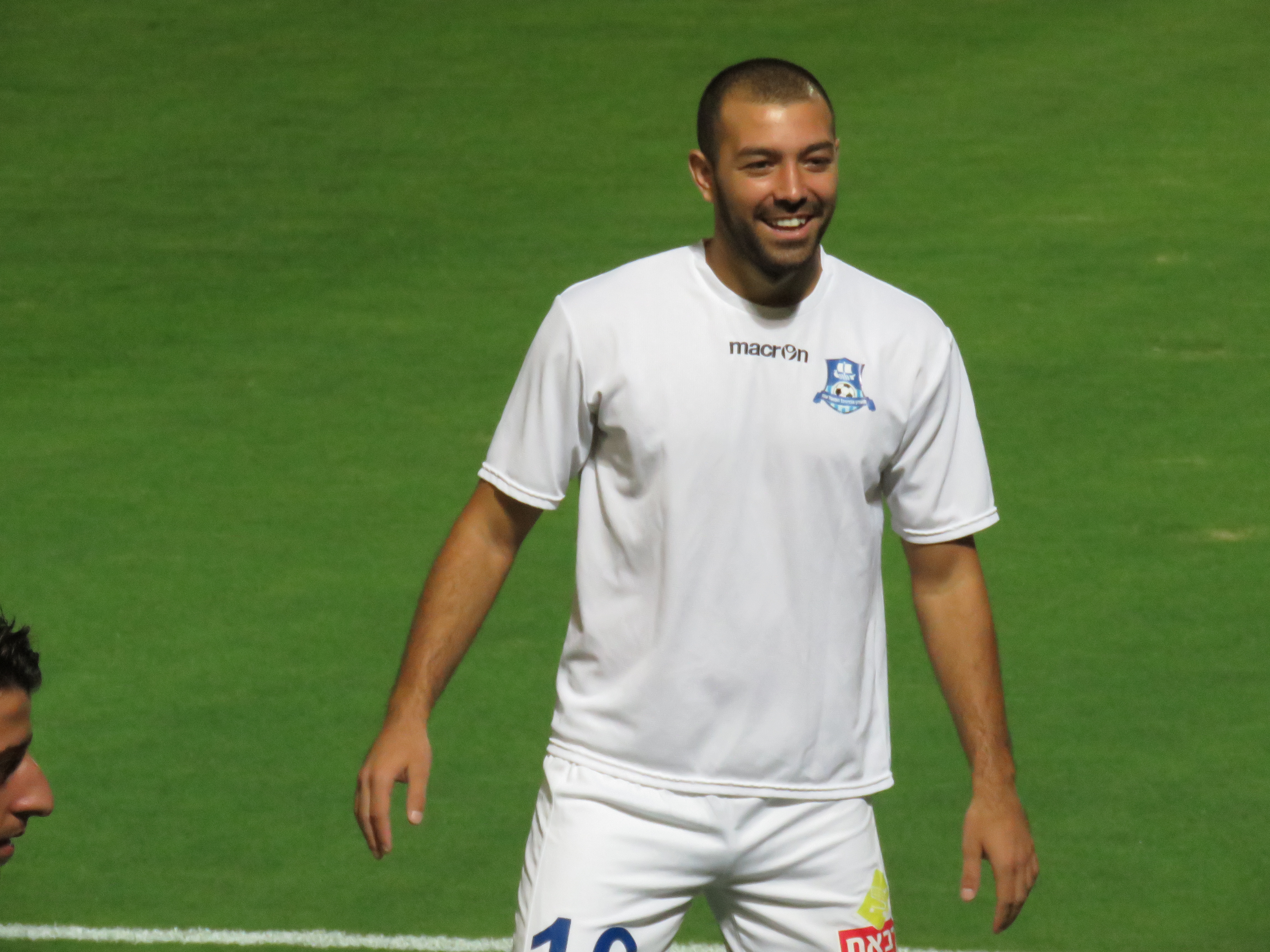 Bnei Yehuda Tel Aviv vs. Hapoel Acre - August 31, 2015